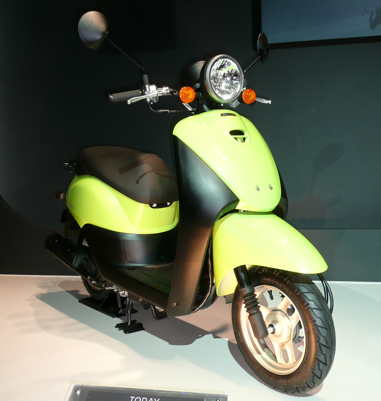 Honda TODAY (2007 Tokyo Motor Show)